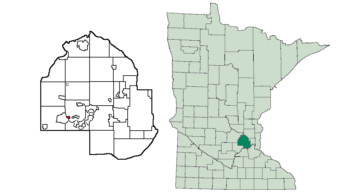 Location of Spring Park in Hennepin County, Minnesota.